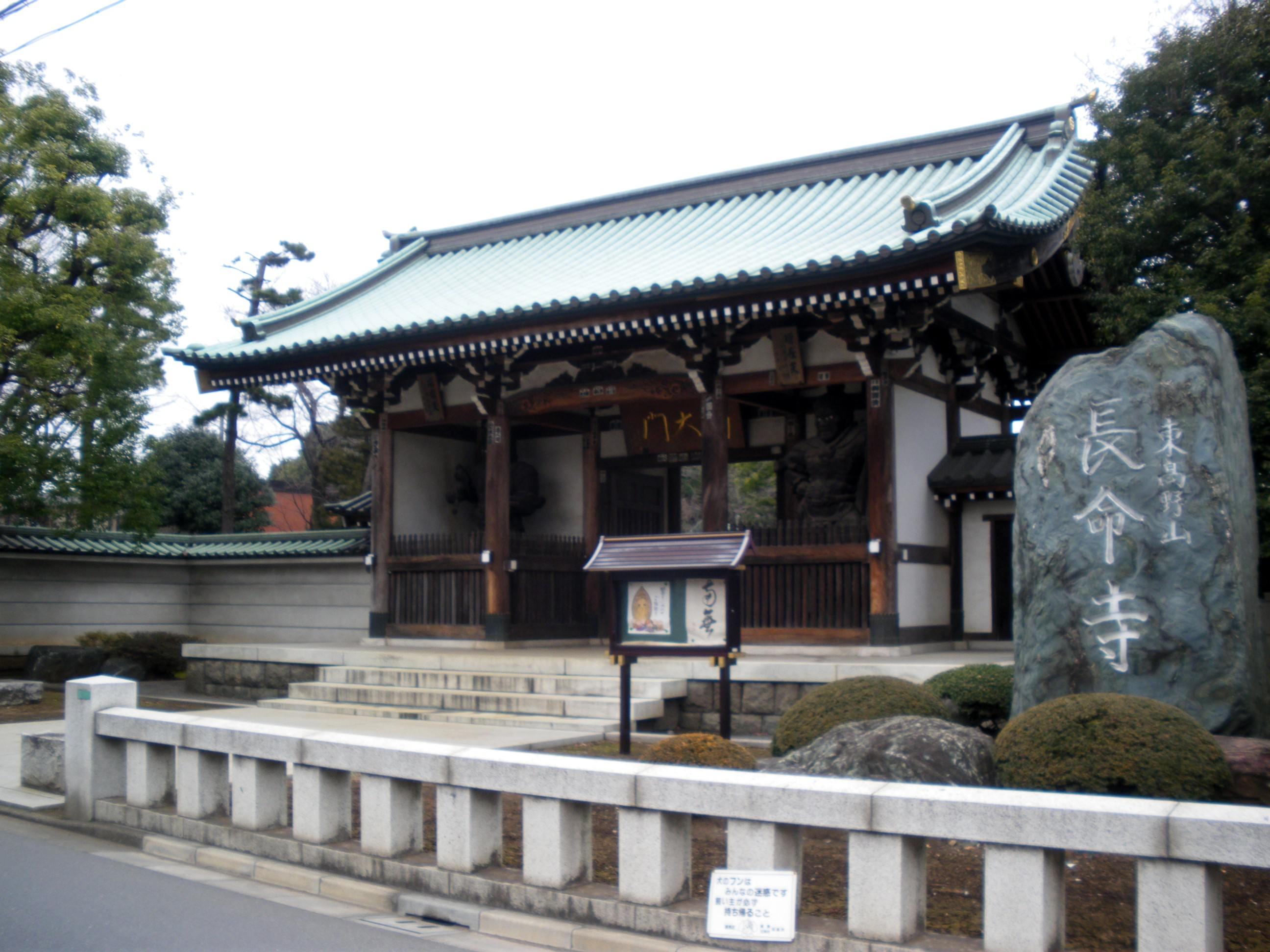 A photo of the entrance of Chomeiji temple,Takanodai,Nerima-ku,Tokyo,Japan.